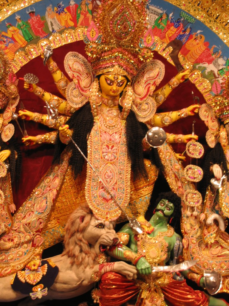 Picture taken in 2005 at Maddox Square, Kolkata.